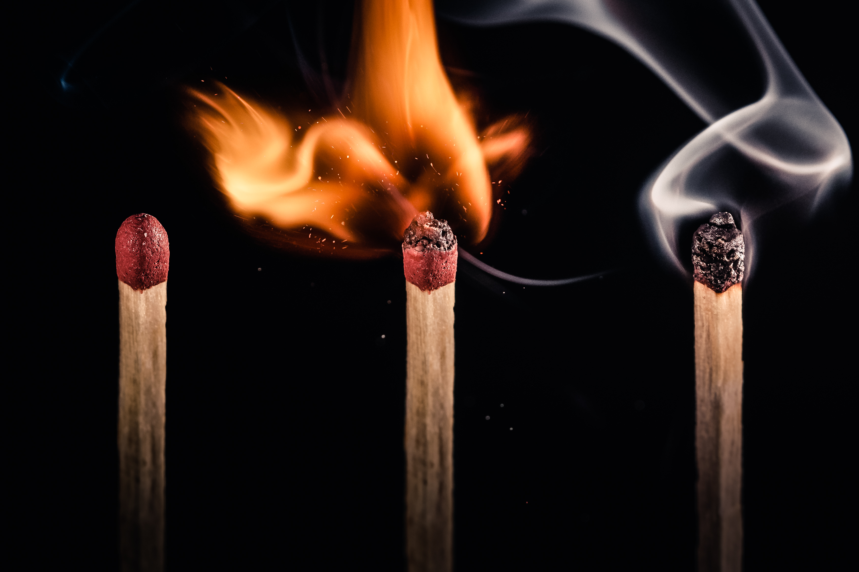 Inspiration comes on a rainy Sunday. Nikon D90 - NIKKOR 18-55mm @ 55mm & f/11 - 1/1250s - ISO200. Macro close-up filter (+2). Black paper background. Strobist info: - Nikon SB-600 placed at 45° right, behind the matches. Slave, wireless mode, at 1/16. - Nikon SB-600 placed at 45° left (225° general), facing the matches, opposite to the other flash. Slave, wireless mode, at 1/32. - On-camera flash disabled, used to trigger both SB-600s in Commander Mode.